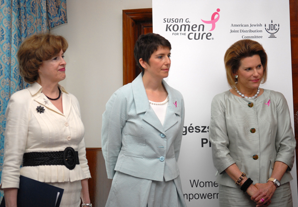 (left to right) April Foley, United States Ambassador to Hungary; Klára Dobrev, first lady of Hungary; Nancy Brinker, former ambassador to Hungary